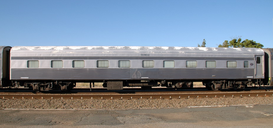 Indian Pacific JTB-2 "Yankai" Overland carriage